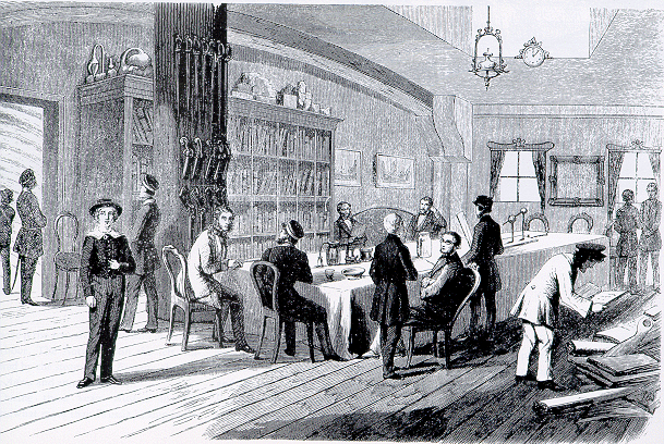 Library and former Gun Room on board the Novara, 1857.